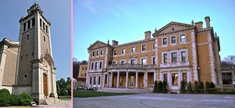 This is simply the Commons images called Scarborough_Presbyterian_Church_(4).JPG and Woodlea_in_Briarcliff_Manor.tiff.jpg set side by side with a thin pink dividing line between for use as an illustration where the multiple images code doesn't work.